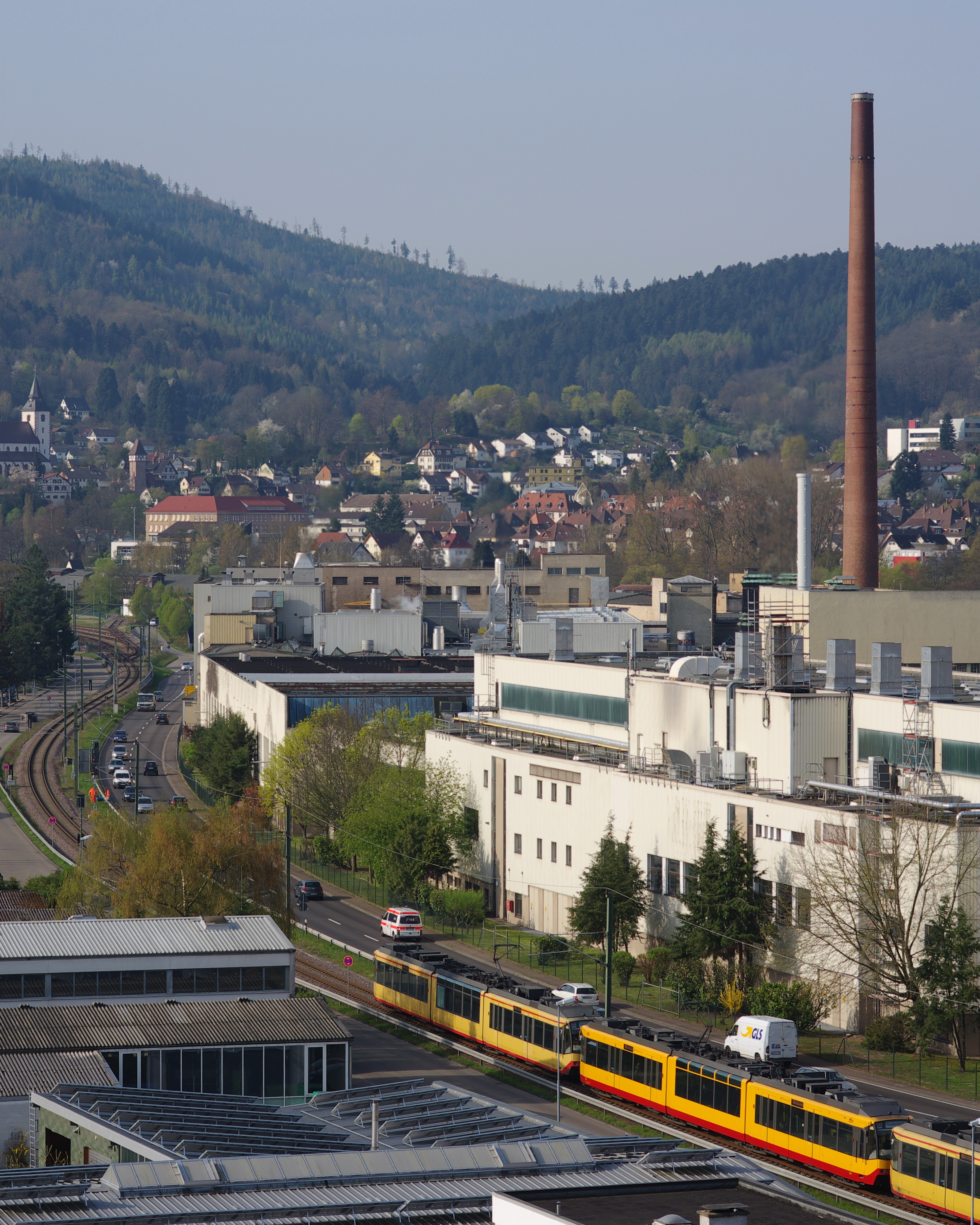 Glatfelter paper mill in Gernsbach, Germany.